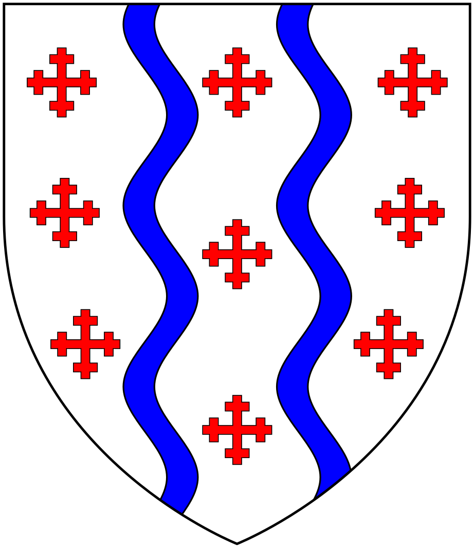 Arms of Dodderidge of Barnstaple, Devon: Argent, two pales wavy azure between nine cross croslets gules. As seen on the monument of Sir John Dodderidge (1555-1628), Lady Chapel, Exeter Cathedral. Blazon (re-phrased) per Pole, Sir William (d.1635), Collections Towards a Description of the County of Devon, Sir John-William de la Pole (ed.), London, 1791, p.481